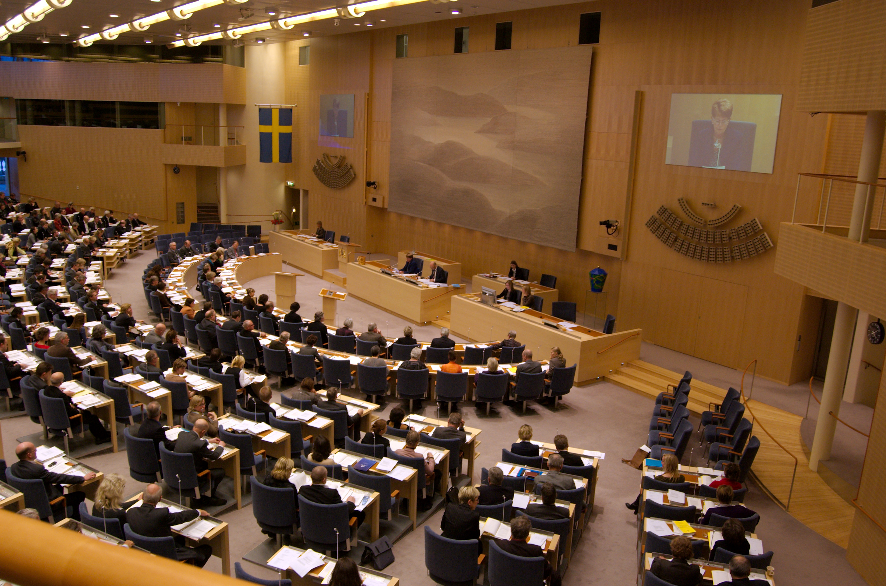 Swedish Parliament, voting for the Ipred law